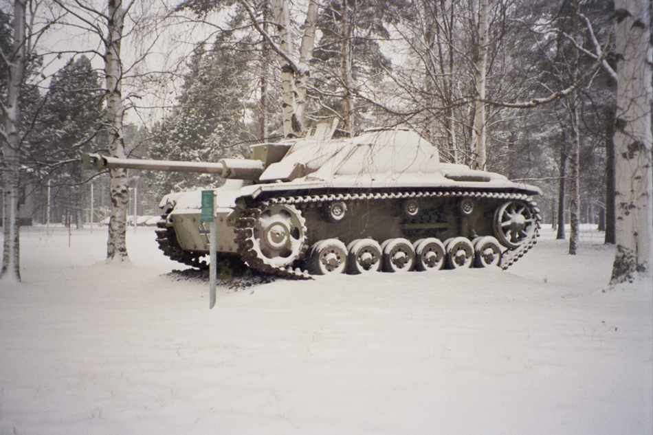 A StuG III assault gun, model Ausf. G, MIAG-built, in the former barracks area of the now disbanded Pohja Brigade in Hiukkavaara, Oulu, Finland.